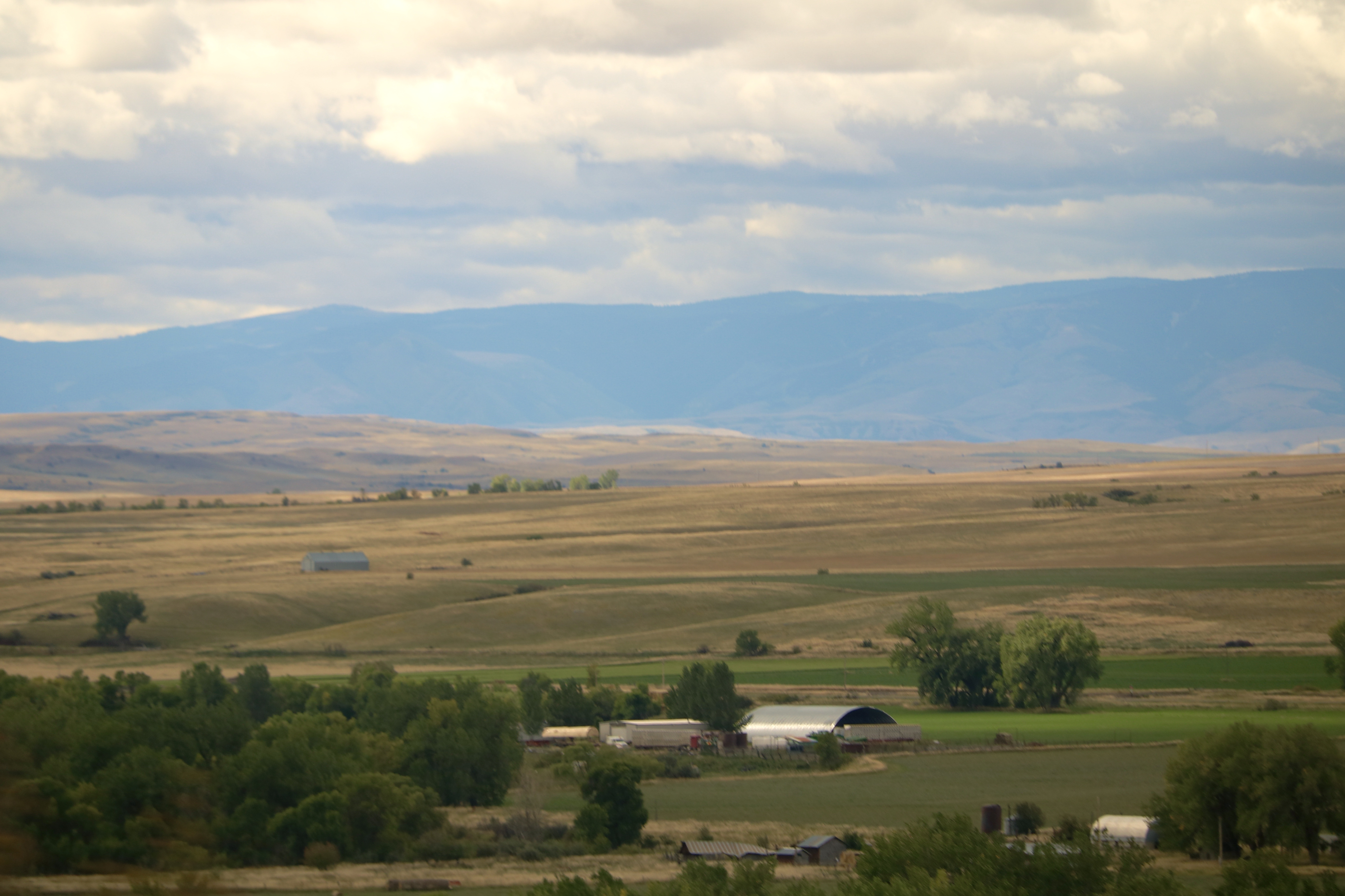 Images taken from Interstate 90 on the Crow Indian Reservation, Big Horn County, Montana, in the Crow Agency/Lodge Grass area